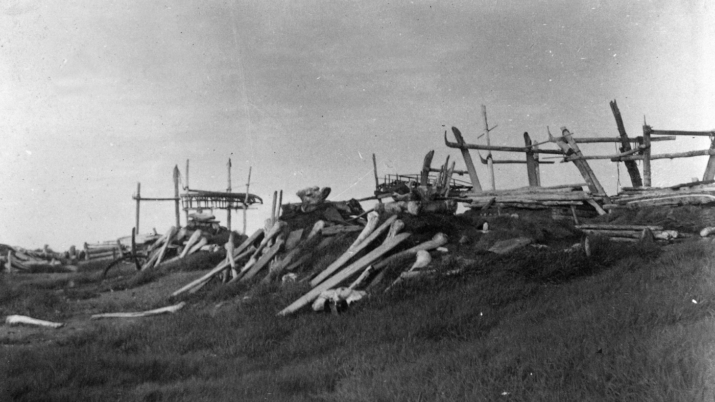 Inuit Houses (semi-underground) at Point Hope, Alaska. cc 1885.